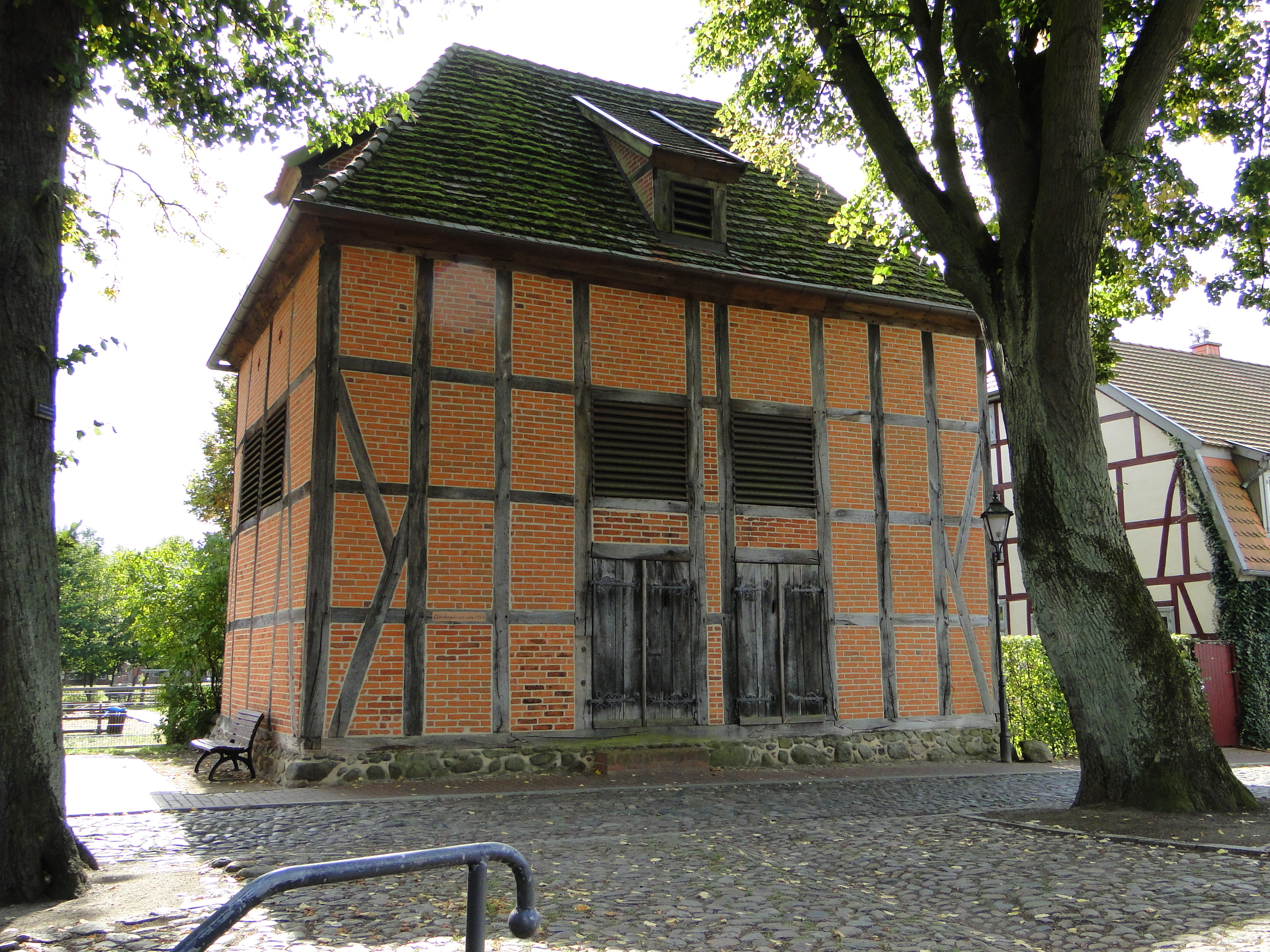 Bells house of the St. Mary's church in Neustadt-Glewe, district Ludwigslust-Parchim, Mecklenburg-Vorpommern, Germany